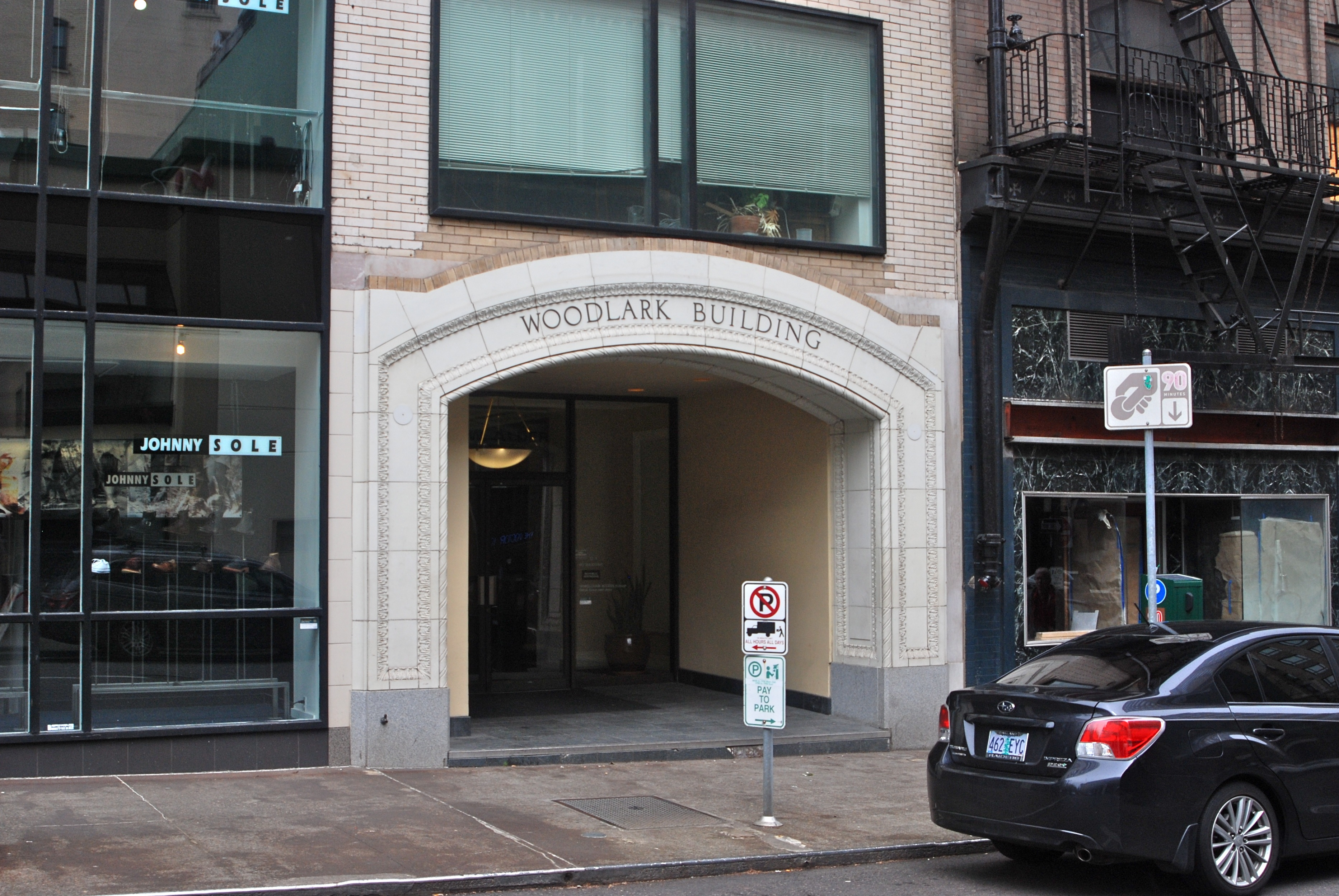 The entrance to the Woodlark Building, in Portland, Oregon, on Alder Street. This entrance was not originally included in the building, but rather was created during a 1924 remodeling.